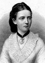 Princess Marie Elisabeth Louise Frederika of Preußen